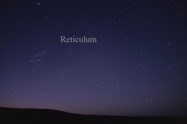 The constellation Reticulum, the net, as it appears to the naked eye